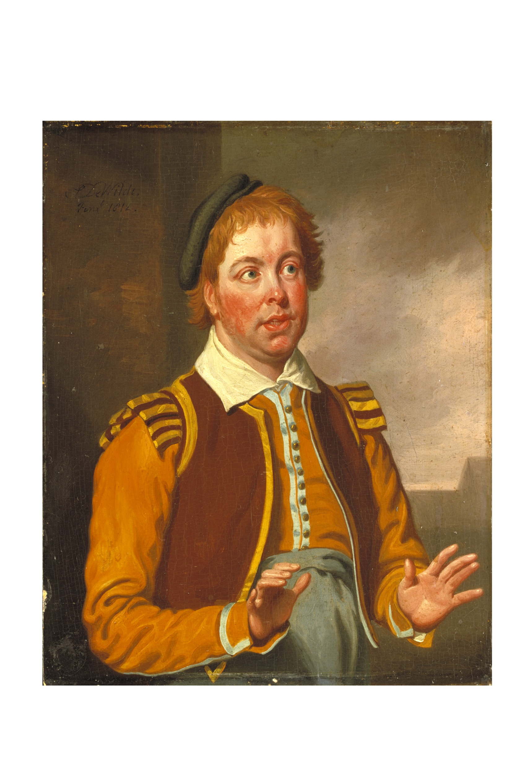 Portrait entitiled 'John Liston as Pompey in 'Measure for Measure' by William Shakespeare', Samuel De Wilde, 1812.